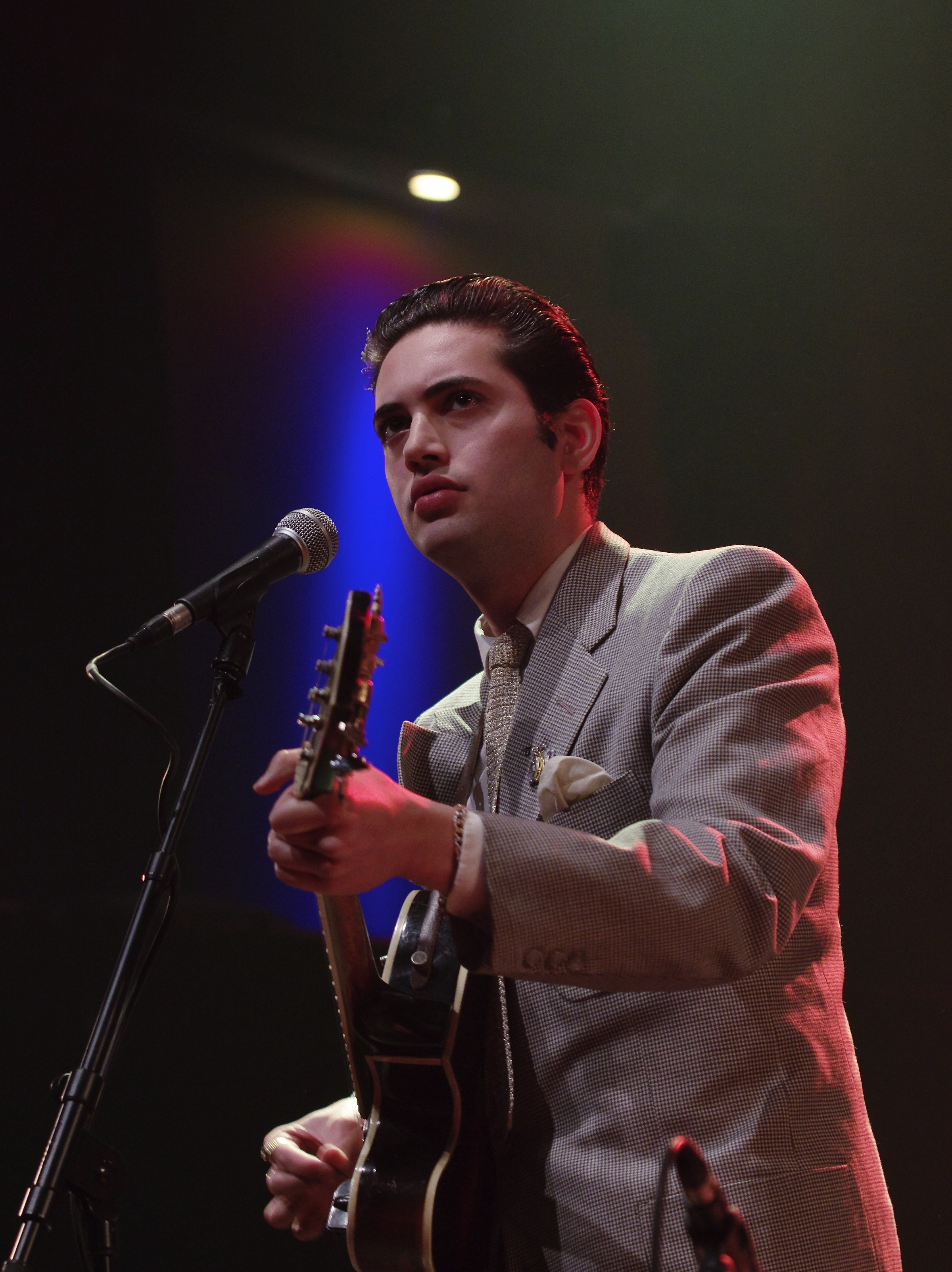 Kitty, Daisy & Lewis at Traumzeit Festival Duisburg 2014. Lewis (Guitar, vocals)